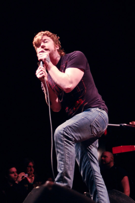 Picture of Jonny Craig singer for Emarosa, ex-Dance Gavin Dance